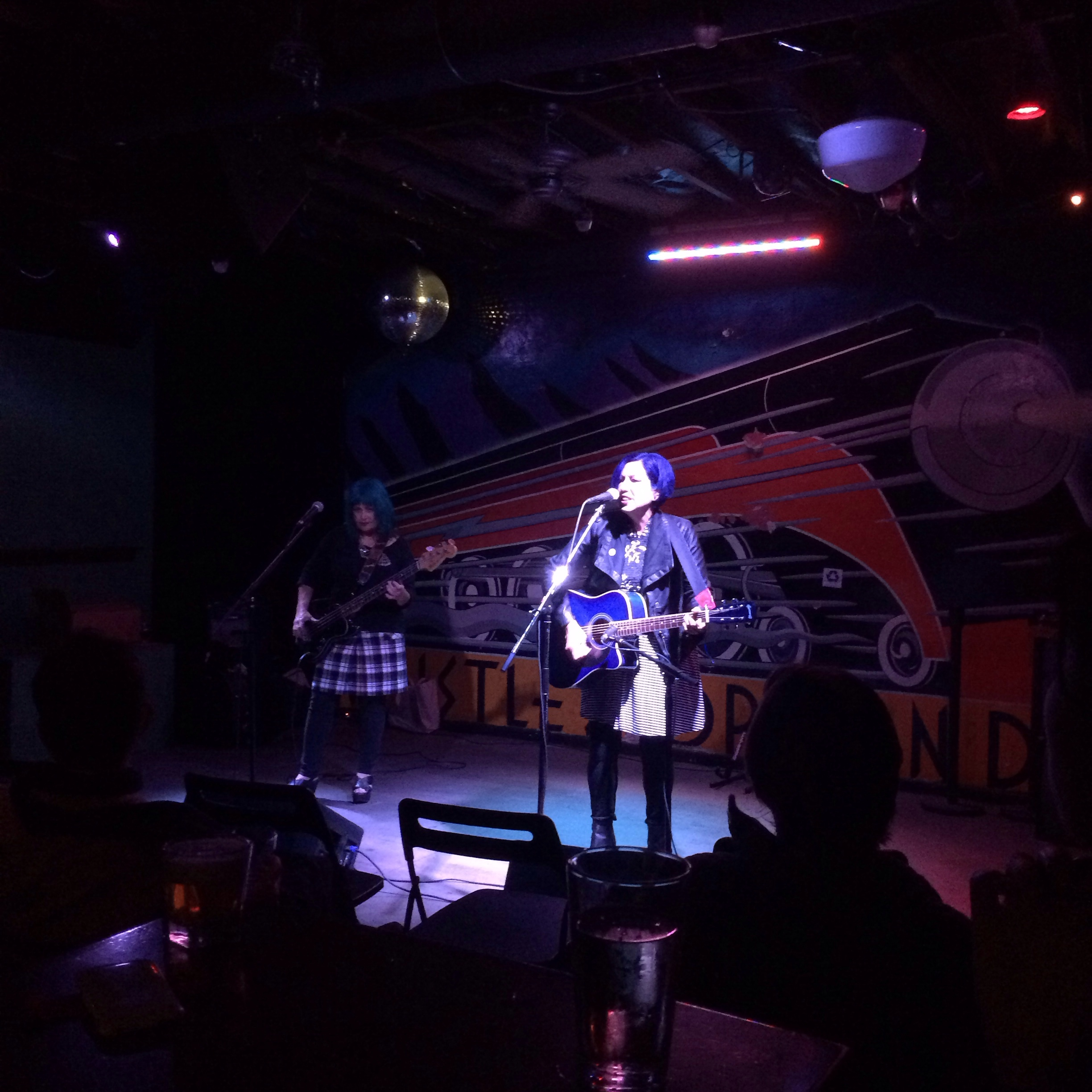 Alice Bag spoken word 'Violence Girl', acoustic performance in San Diego, CA - March 2014 (photo by Jeff Graves)